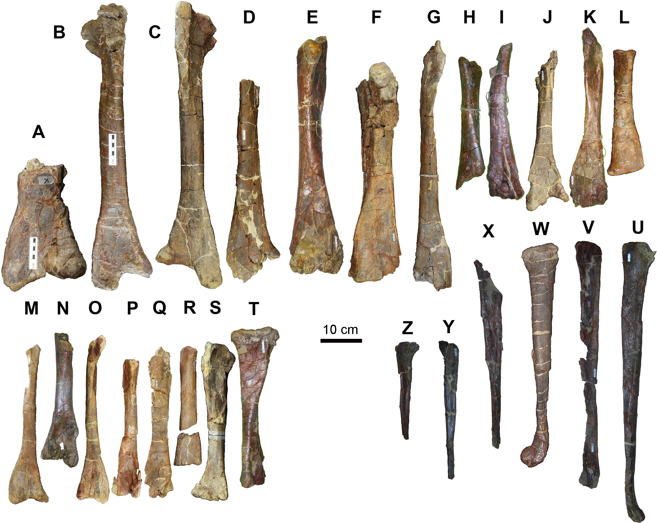 Tibiae: (A) MCD-5109, right. (B) MCD-4728, right. (C) MCD-4958, left. (D) MCD-4918, right. (E) MCD-4701, right. (F) MCD-4920, left. (G) MCD-4719, left. (H) MCD-5105, right. (I) MCD-4705, left. (J) MCD-4784, right. (K) MCD-4771, right. (L) MCD-4886, left. (M) MCD-4796, right. (N) MCD-4986, left. (O) MCD-4799, left. (P) MCD-4882, right. (Q) MCD-4956, right. (R) MCD-4721, right. (S) MCD-7144, left. (T) MCD-5106, left. Fibulae: (U) MCD-4889, left. (V) MCD-4912, right. (W) MCD-4715, left. (X) MCD-4795, right. (Y) MCD-4741, right. (Z) MCD-4985, left. Scale bar equals 10 cm.